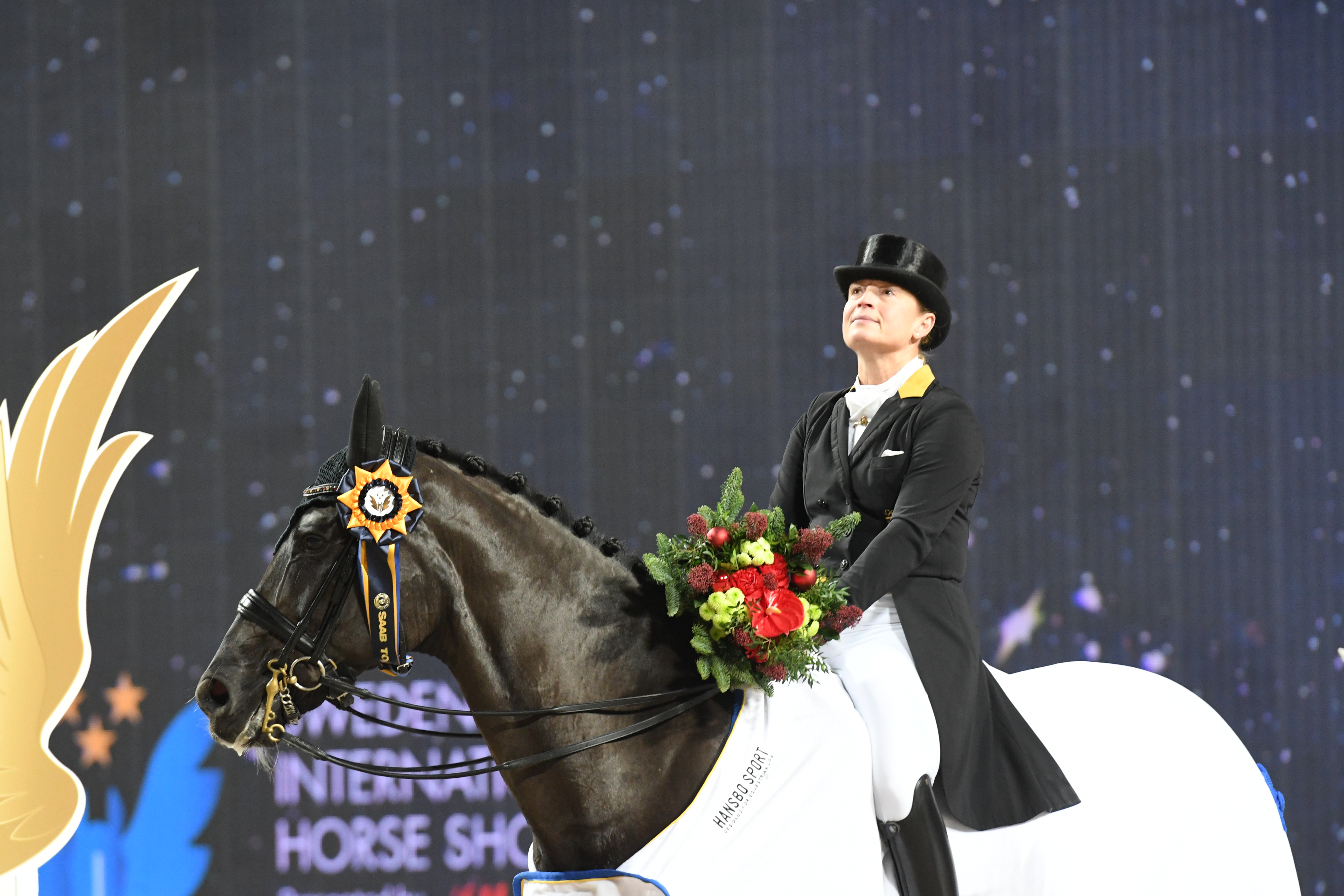 Isabell Werth Weihegold and Old during SAAB Top Ten Dressage Grand Prix prize ceremony during Sweden International Horse Show 2018.